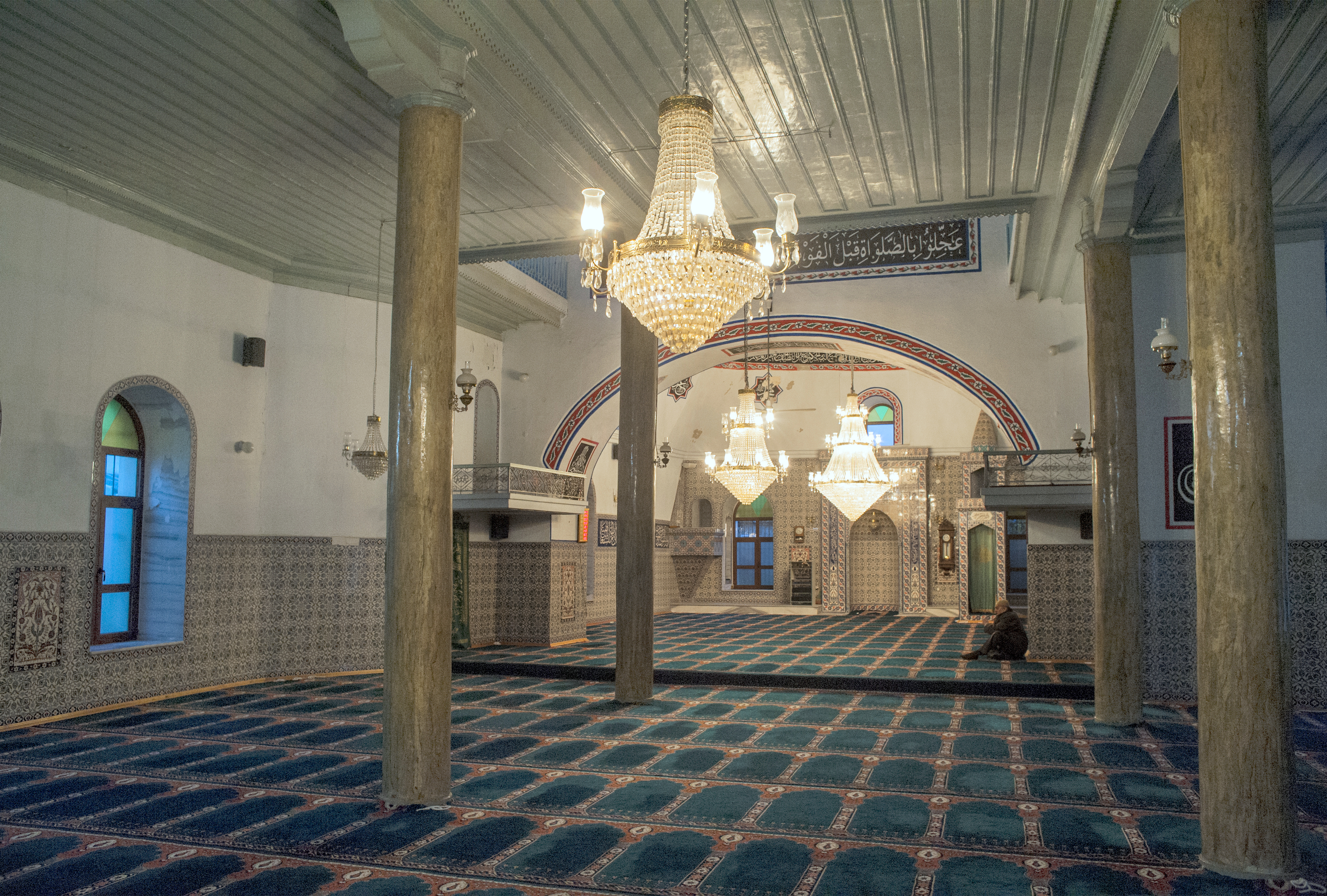 Interior of Eski Mosque, Komotini, Thrace, Greece.